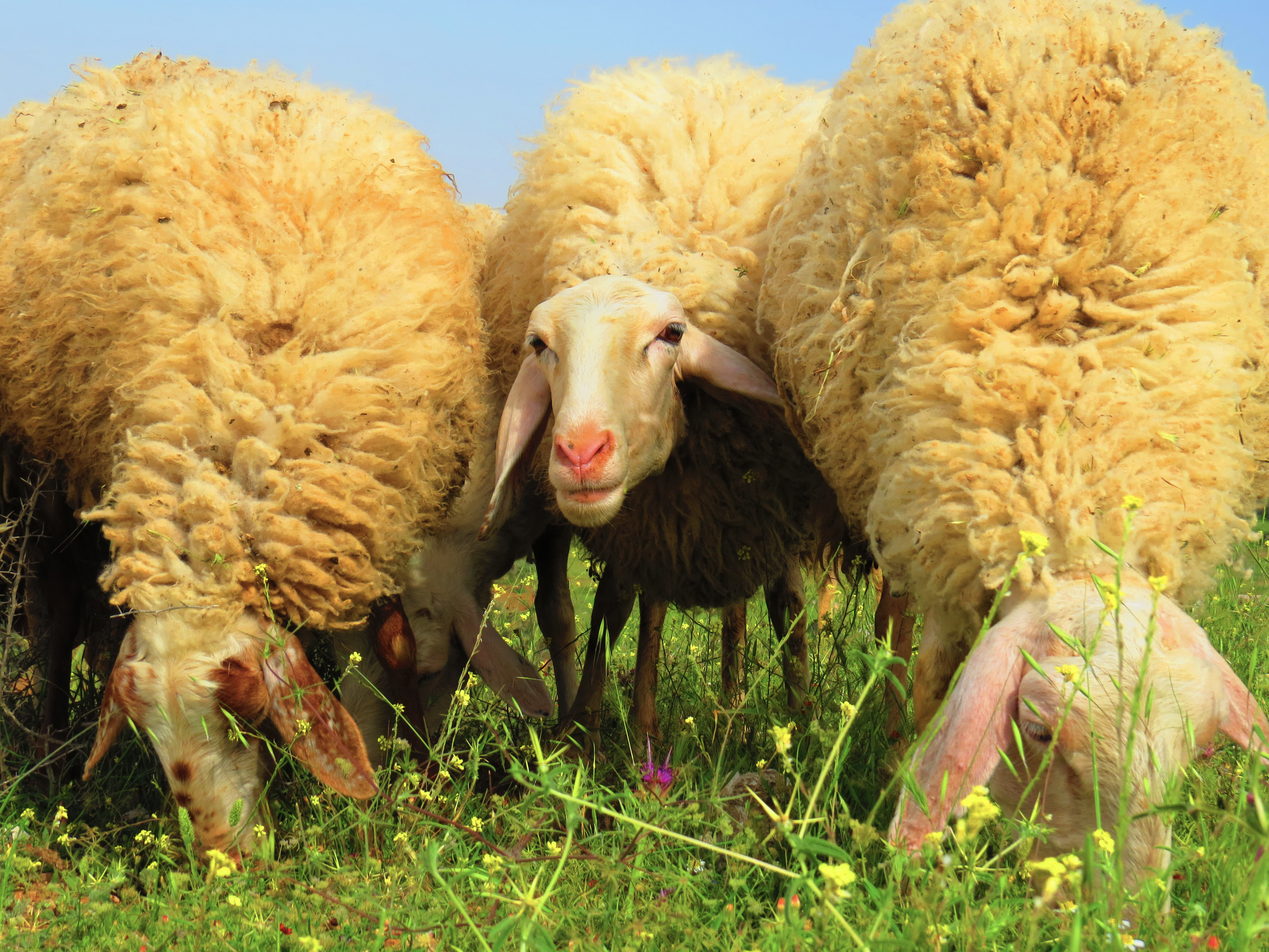 Assaf sheep in Hebron